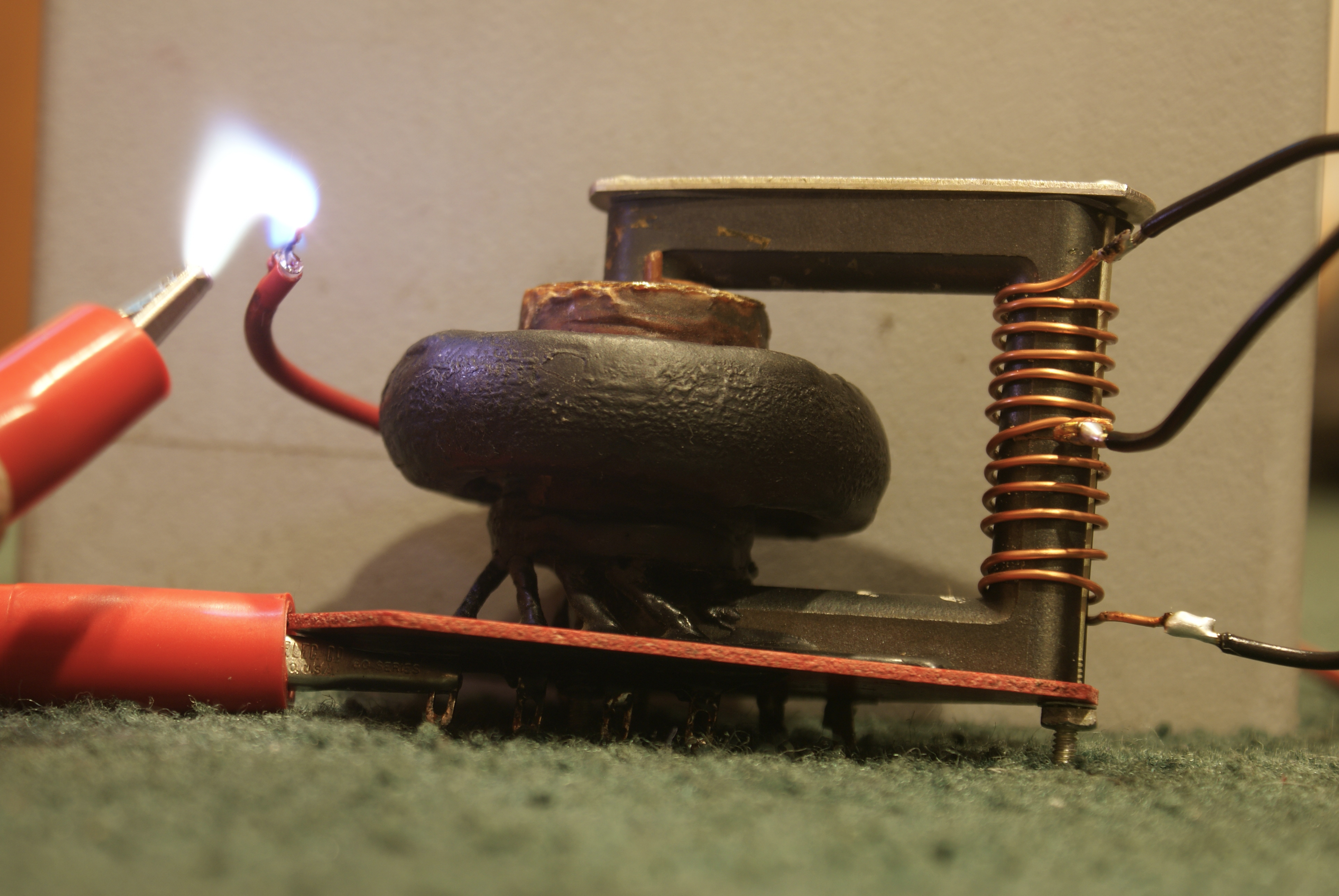 An arc from a flyback